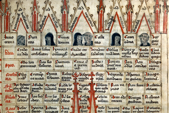 Tower of Wisdom